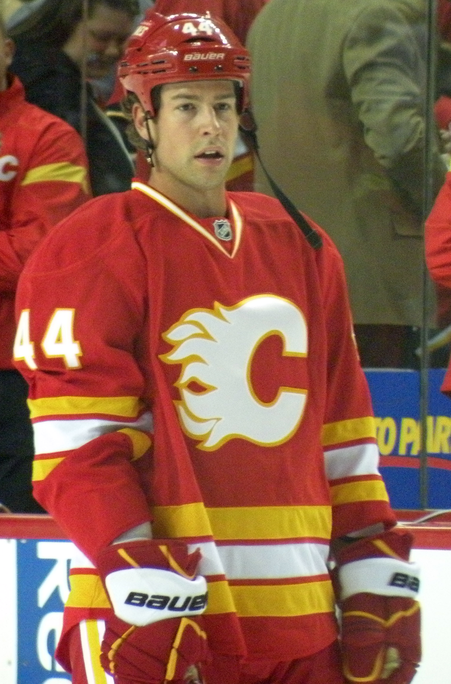 Calgary Flames defenceman Chris Butler prior to making his debut with the team, against the Pittsburgh Penguins, at Calgary.